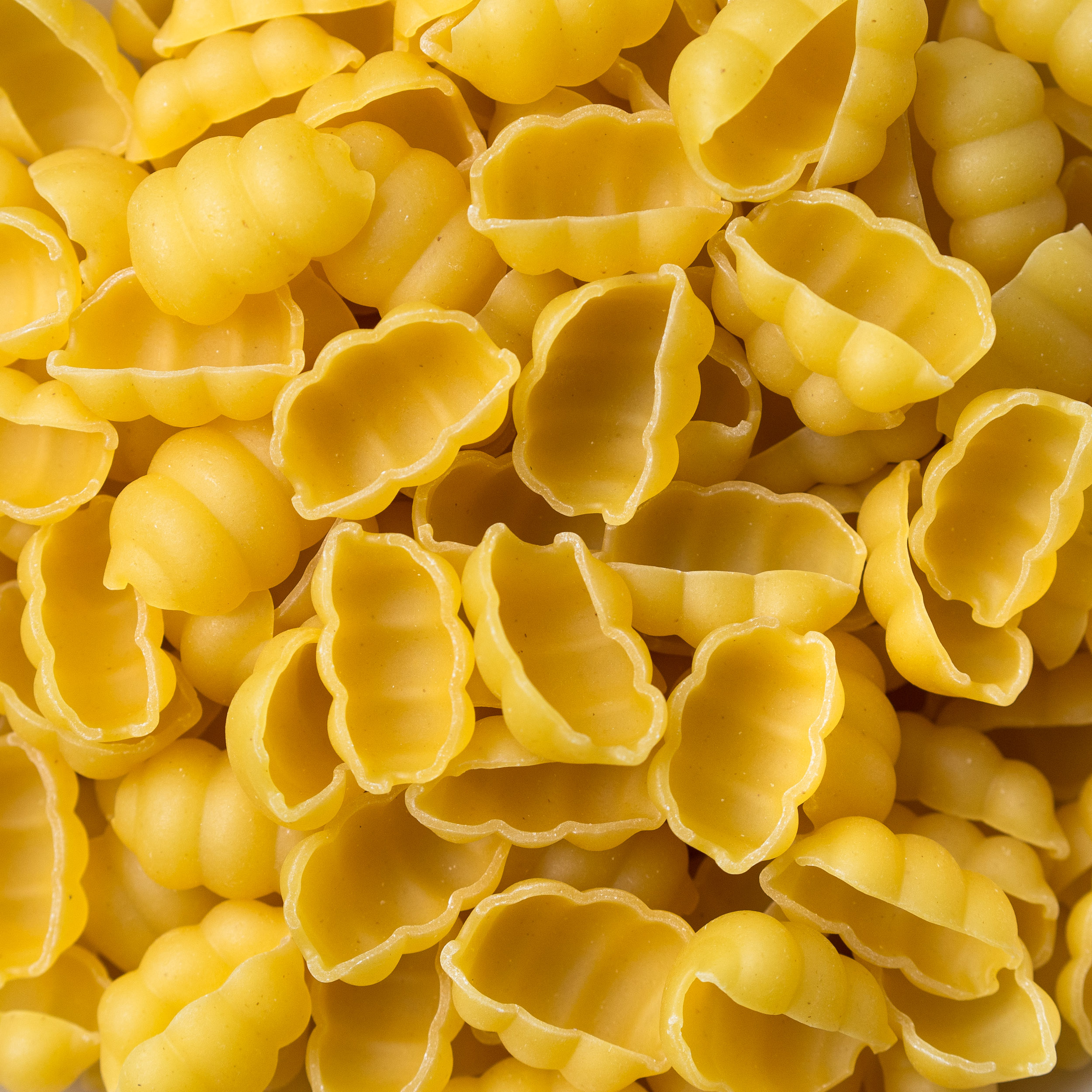 Barilla gnocchi no. 85 before cooking. Although this pasta is called "gnocchi", it only remotely resembles the shape of a real "gnocchi".